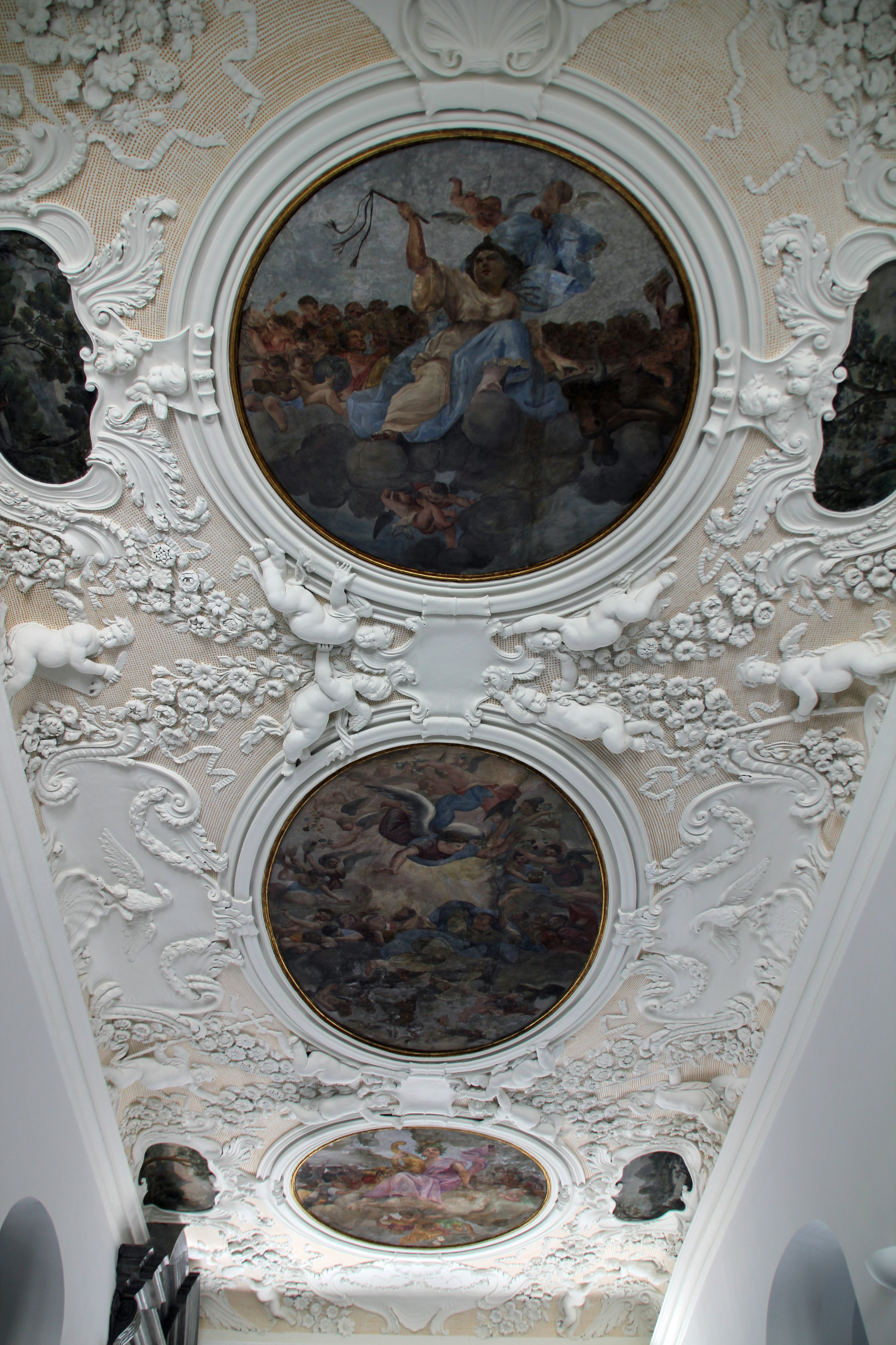 City hall of Koblenz